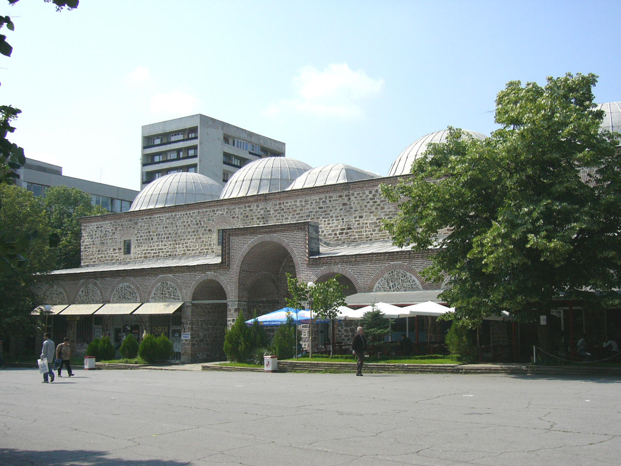 Bezisten (covered market) in Yambol, Bulgaria (1509)